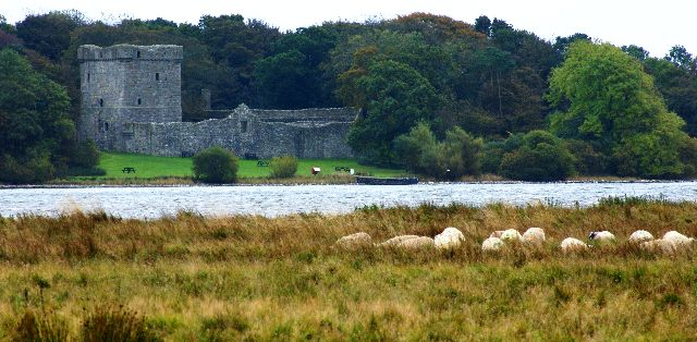 Mary, Queen of Scots was imprisoned here in 1567–1568, and forced to abdicate, before later being beheaded for treason against her sister Queen Elizabeth the first of England.